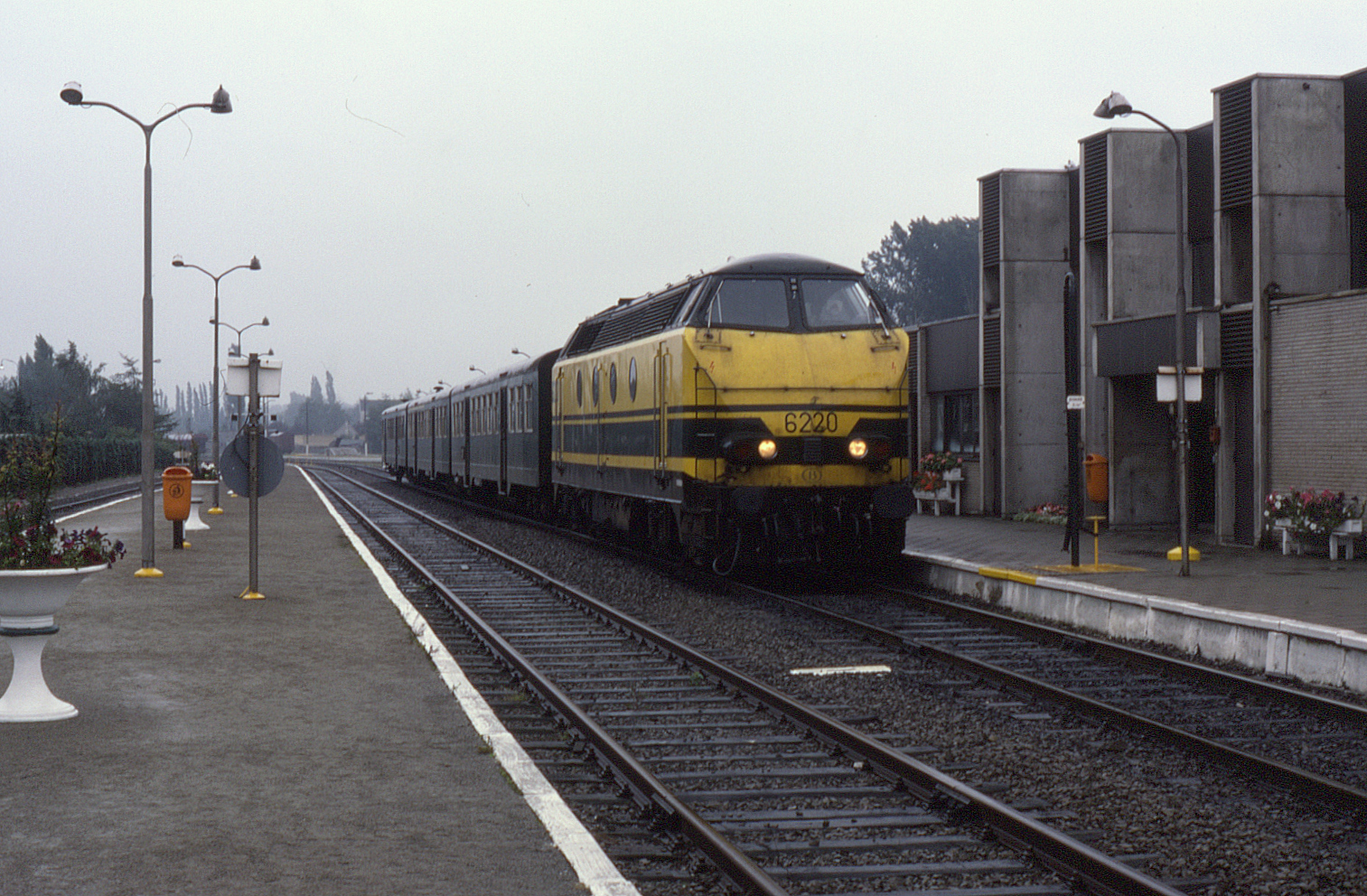 6220 having arrived at Eeklo, Belgium, on 10 September 1987.